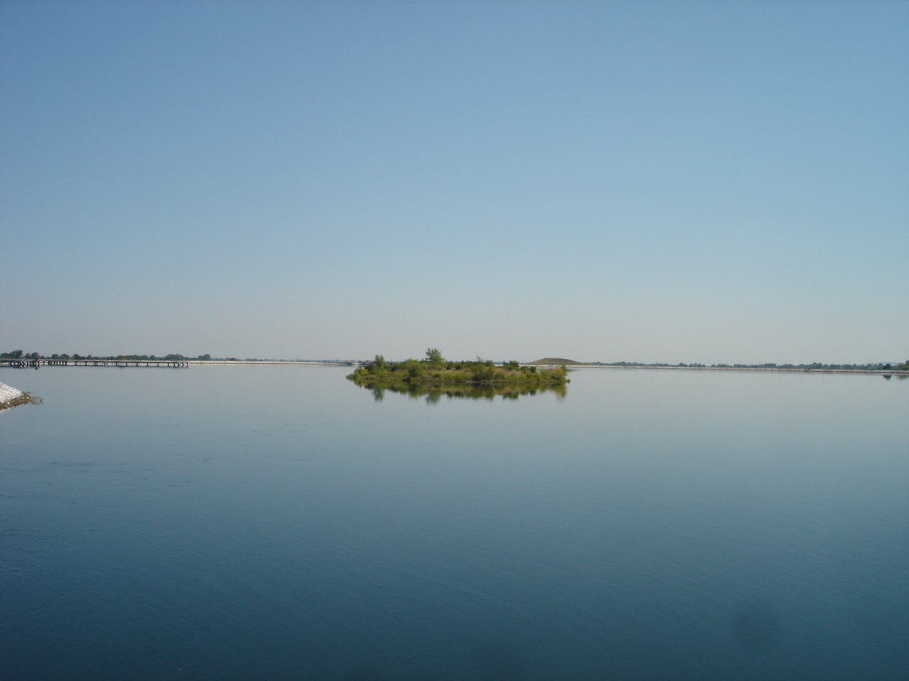 River Bistrica (Haliacmon) after the great dam near Ber (Veroia) in Aegean Macedonia, Greece